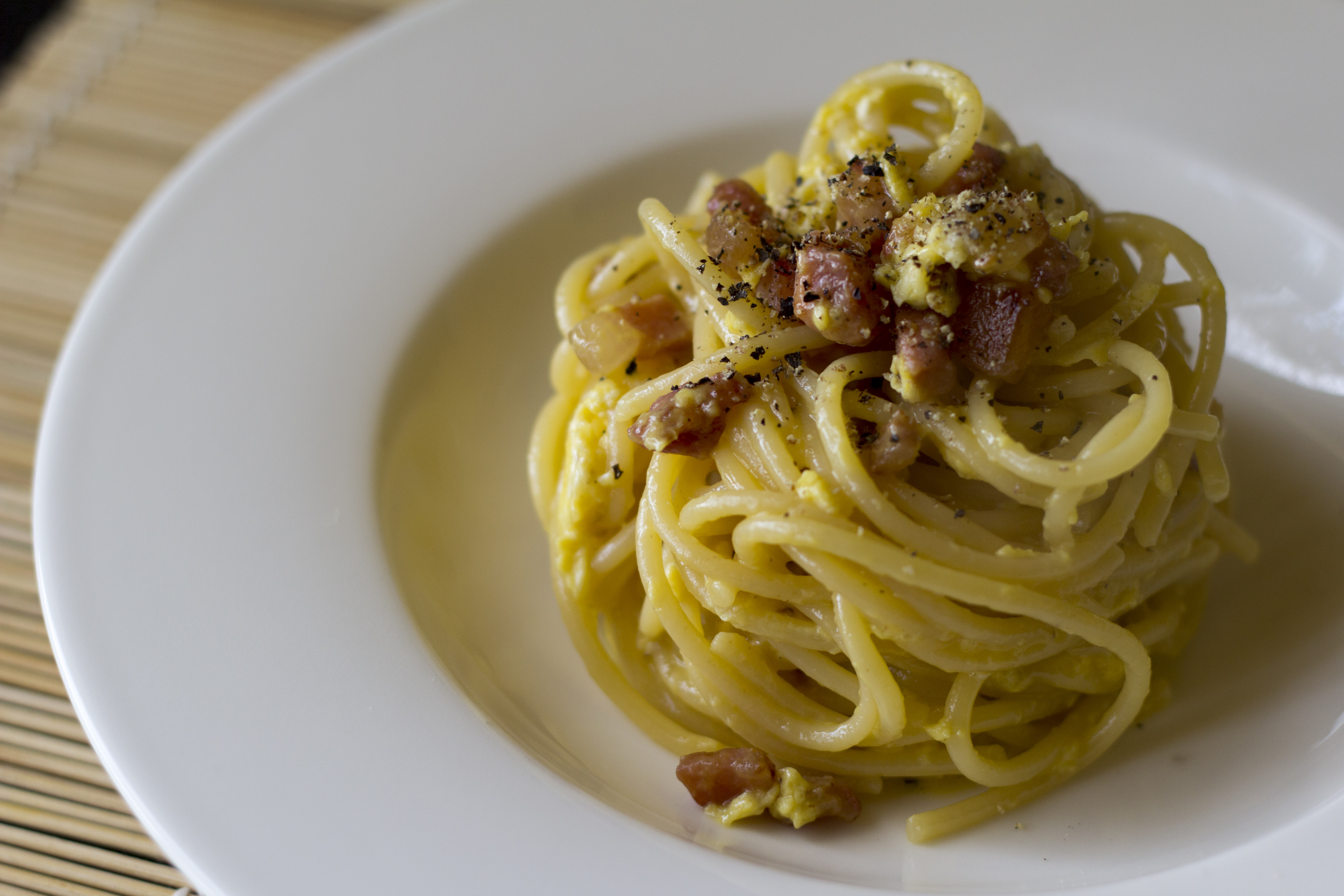 Spaghetti alla carbonara (Recipe in italian with translation available: )